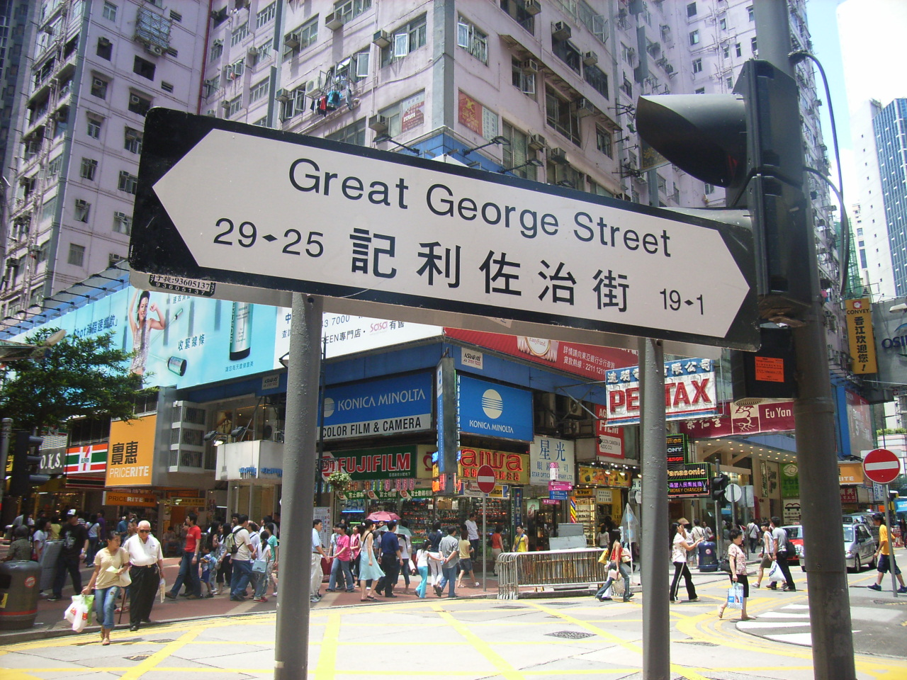 One of the most busy streets in Causeway Bay, Hong Kong